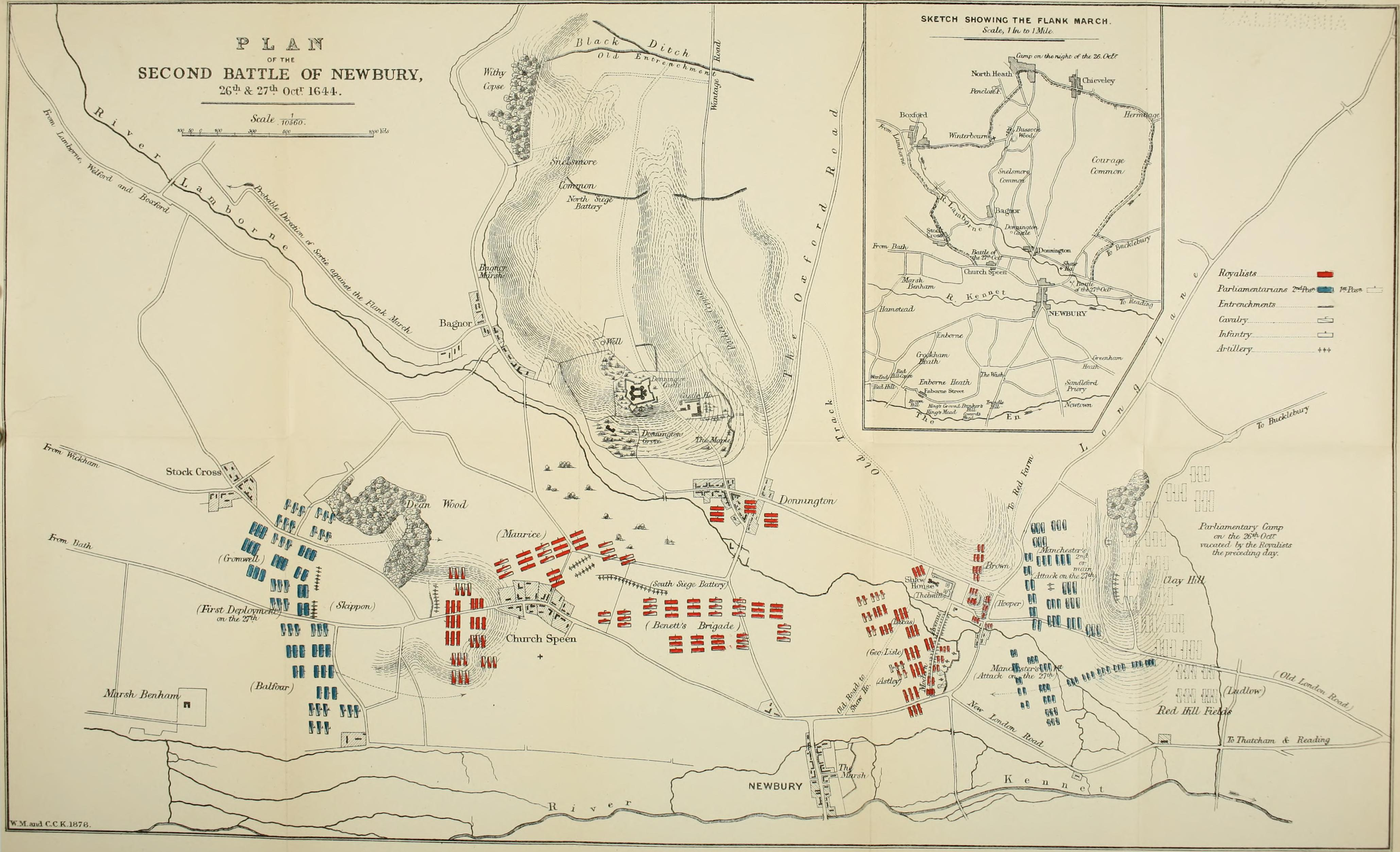 Plan of the Second Battle of Newbury (October 1644)